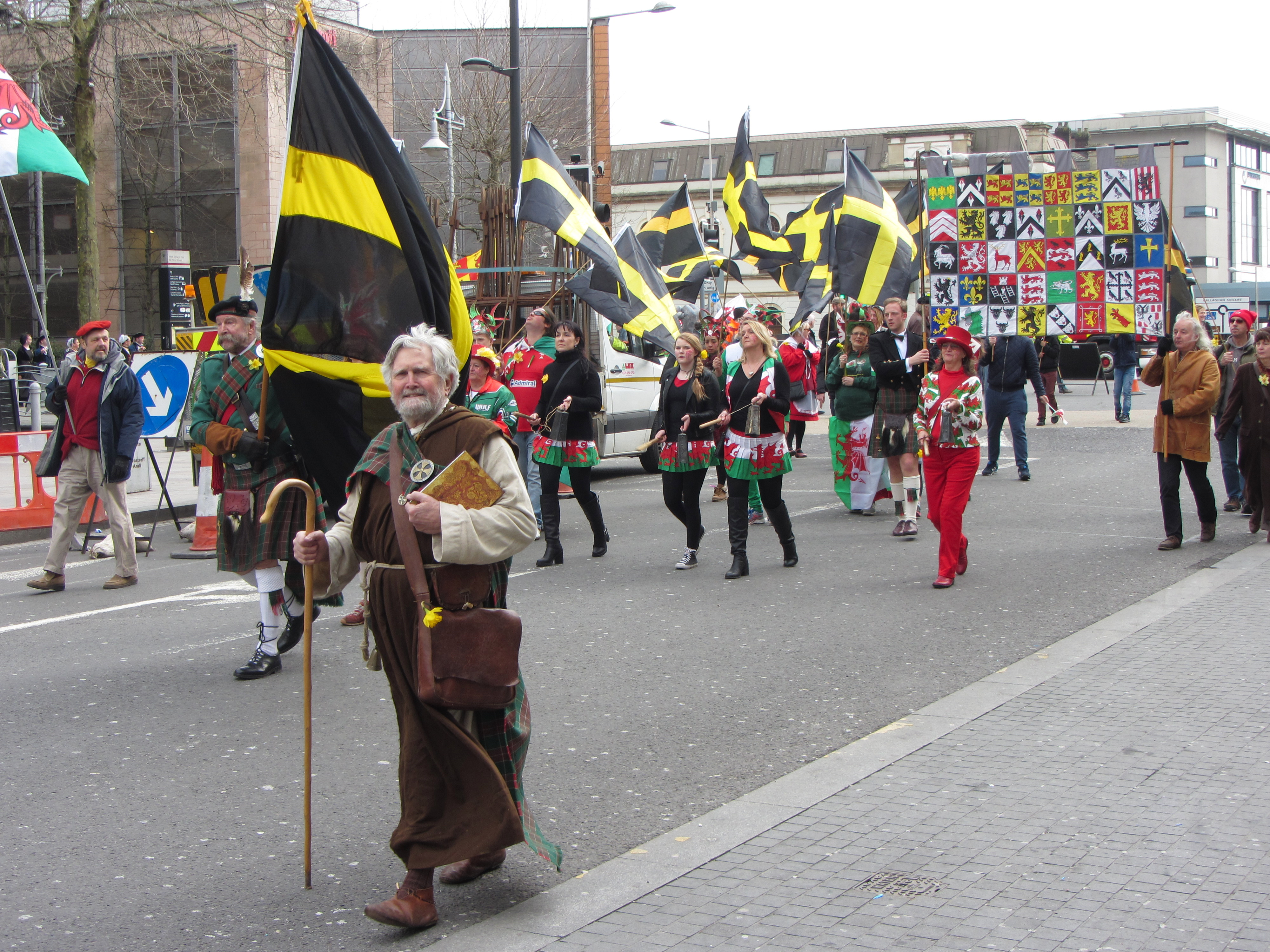 St. David's Day parade, Cardiff 2015. St David leads the parade.